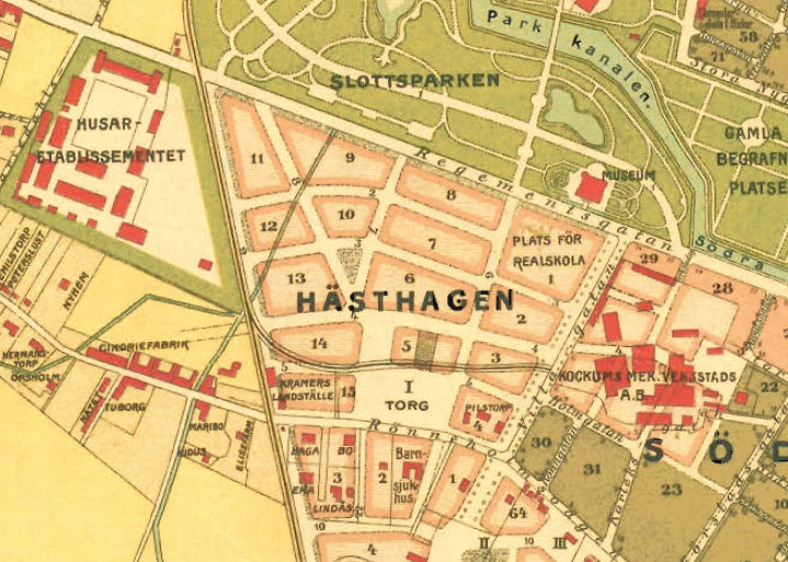 Hästhagen 1904